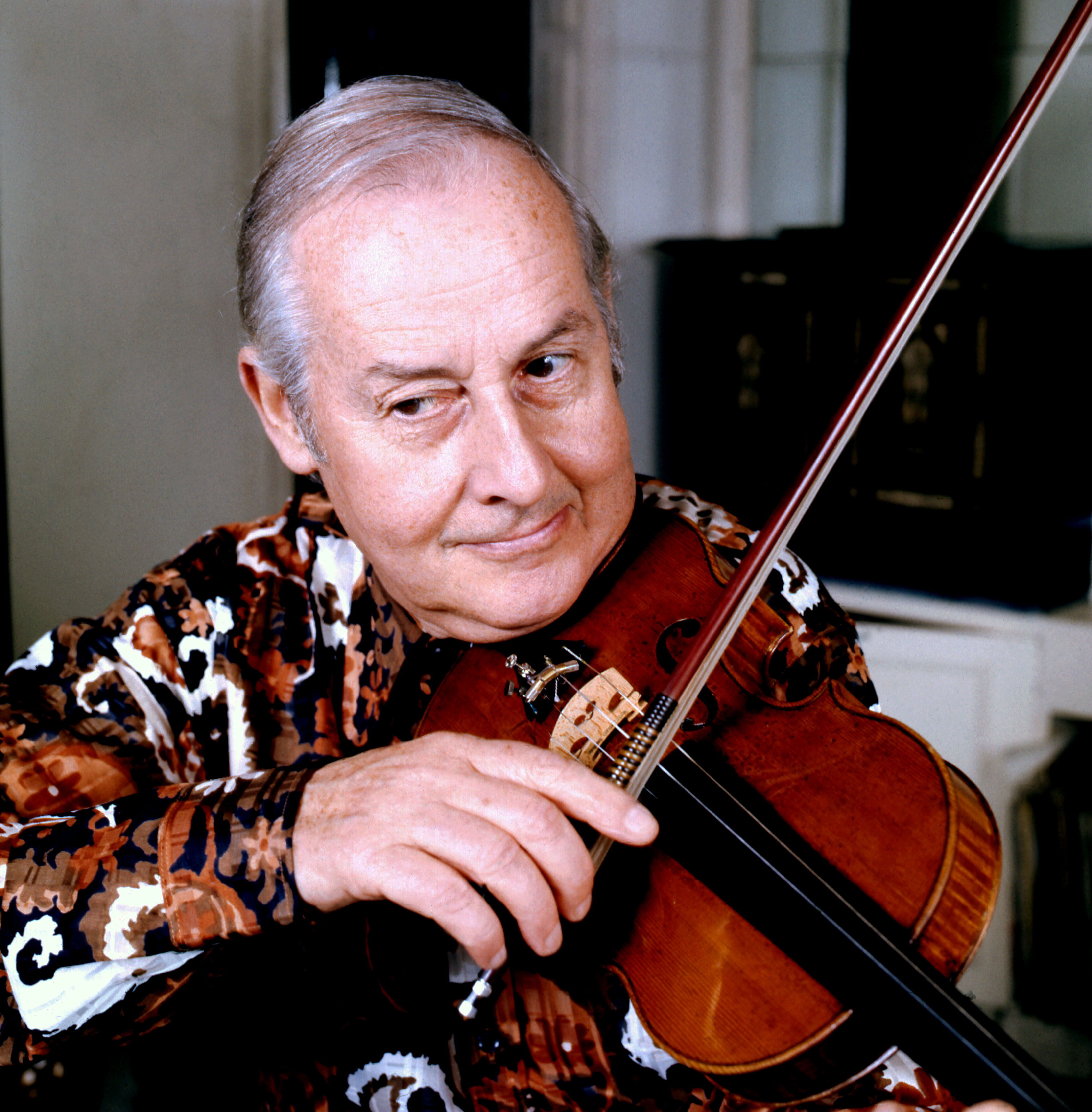 Portrait of Stephane Grappelli London